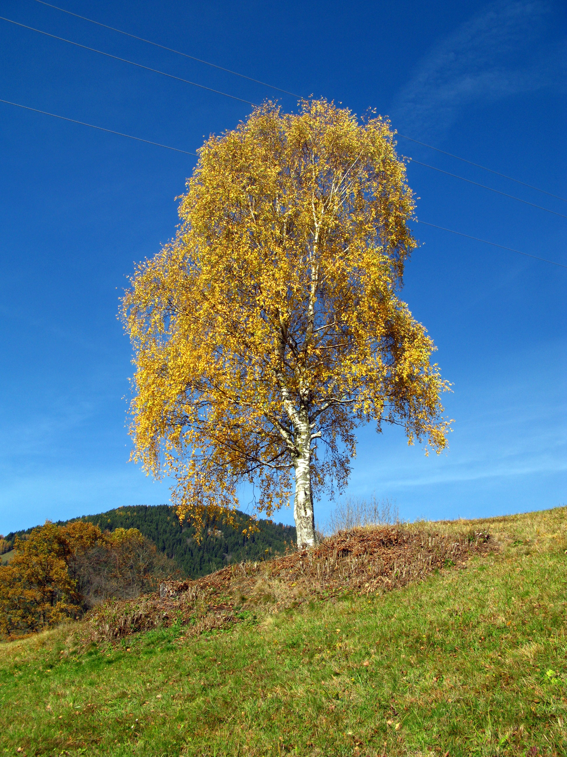 Birch (Betula pendula) on Millstätter Berg near Lake Millstatt, district Spittal an der Drau in Carinthia / Austria / European Union. Autumn atmosphere.